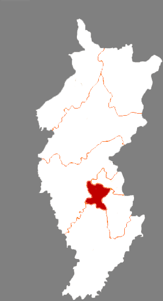 Location of Dongchang district in Tonghua City, China